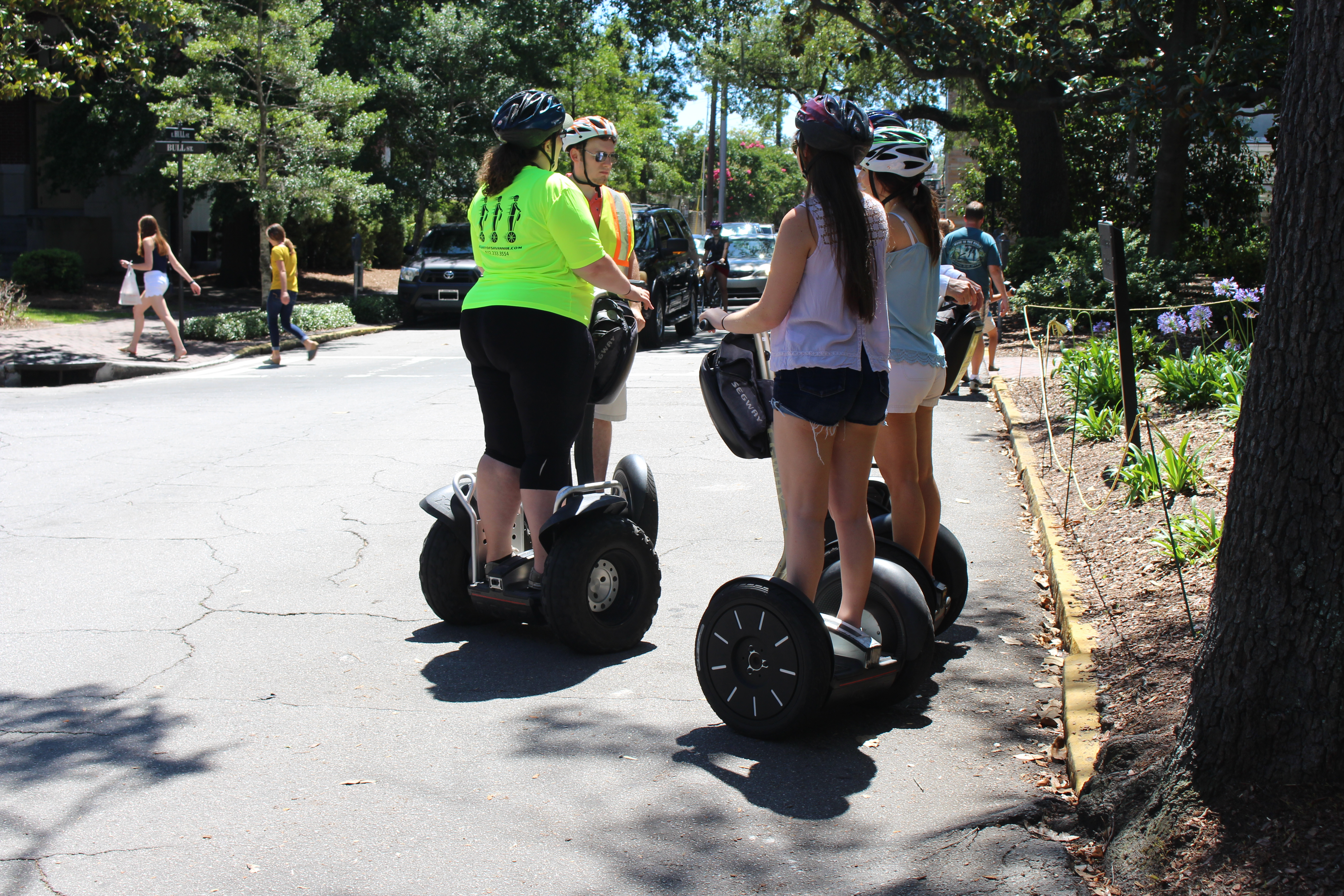 People on Segways, Savannah, Chatham County, Georgia